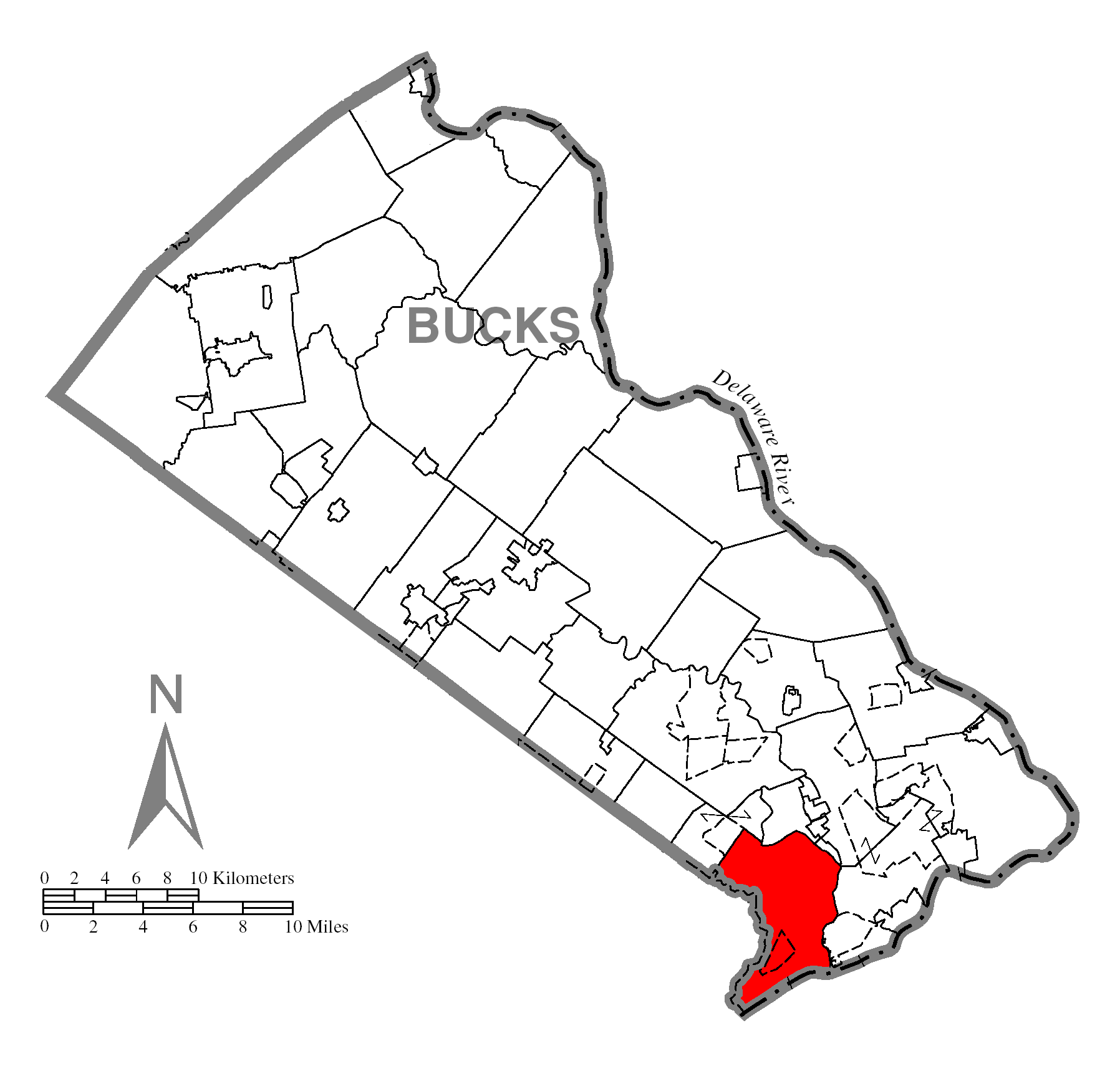 A map of Bucks County showing Bensalem Township, Pennsylvania (alternate) highlighted on the map.